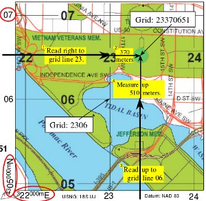 This shows how USNG local grid coordinates (the last of 3 parts of a full USNG reference) refer to a particular location by "reading right then up" from the lower-left corner of the containing 100 km grid square.